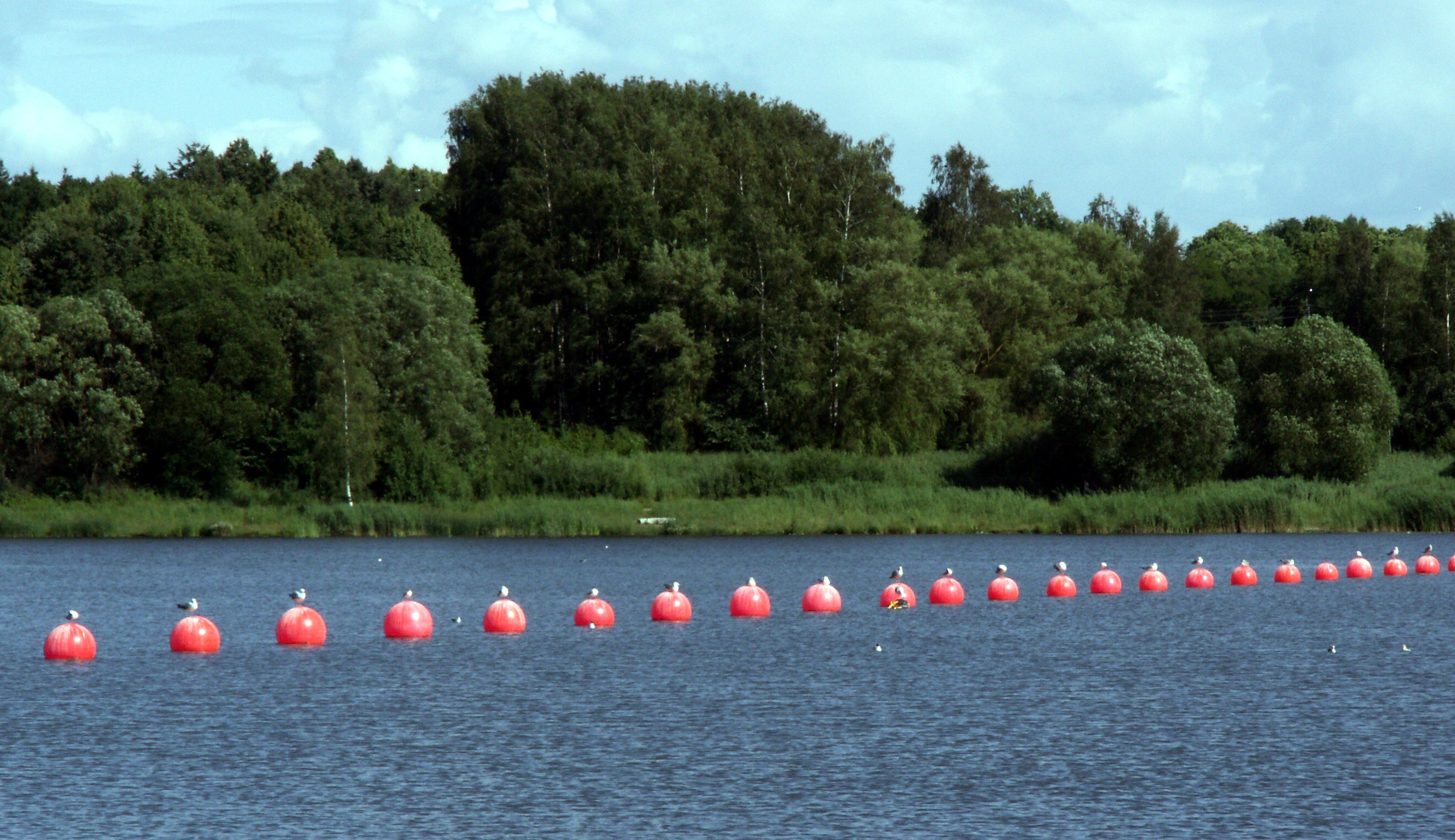 Lake Talša, Šiauliai